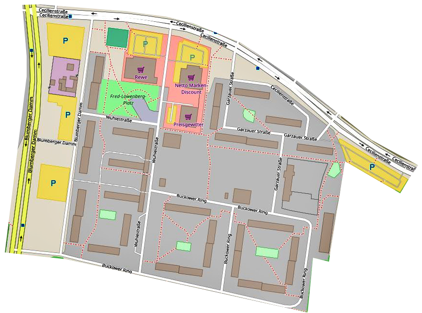 This map may be incomplete, and may contain errors. Don't rely solely on it for navigation.